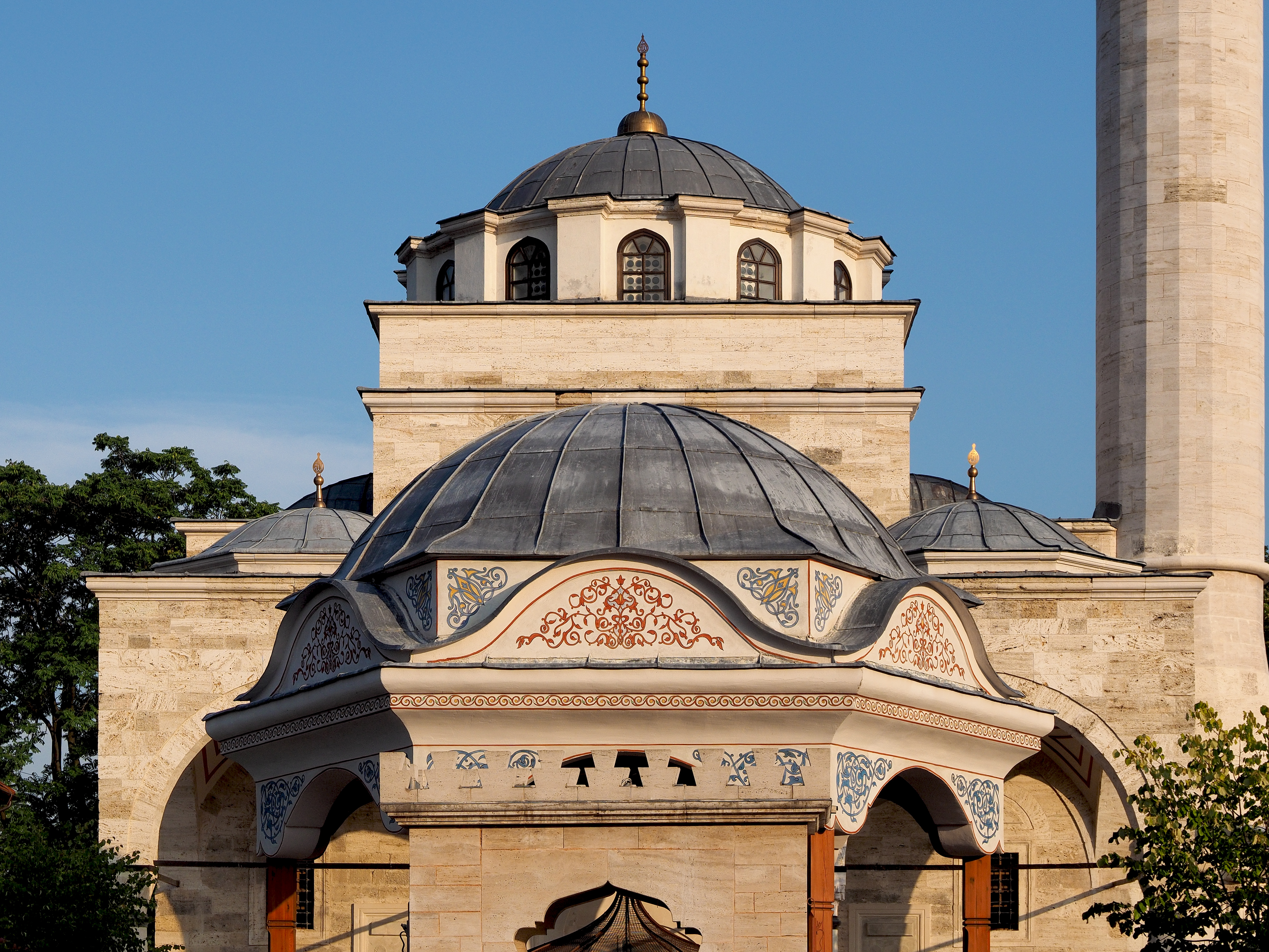 Ferhat-Pasha mosque in Banja Luka, Republika Srpska Српски (ћирилица): Џамија Ферхадија, Бања Лука, Република Српска Ферхад-пашина (Ферхадија) џамија, са Ферхад-пашиним турбетом, турбетом Сафи-кадуне, турбетом пашиних барјактара, шадрваном, харемом, оградним зидовима и порталом, Бања Лука ID добра: NKD138 This image was uploaded as part of Trace of Soul 2017. This photograph was taken with an Olympus E-M1